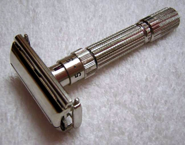 An example of adjustable safety razors, the 1961 Gillette Adjustable (commonly called the "Fatboy").